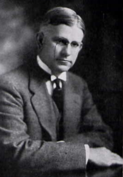 Photograph of University of Alabama President George H. Denny